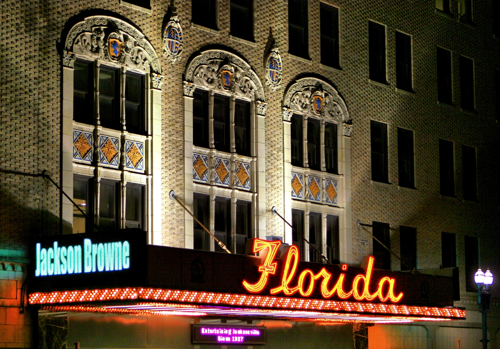 The Florida Theater in HDR